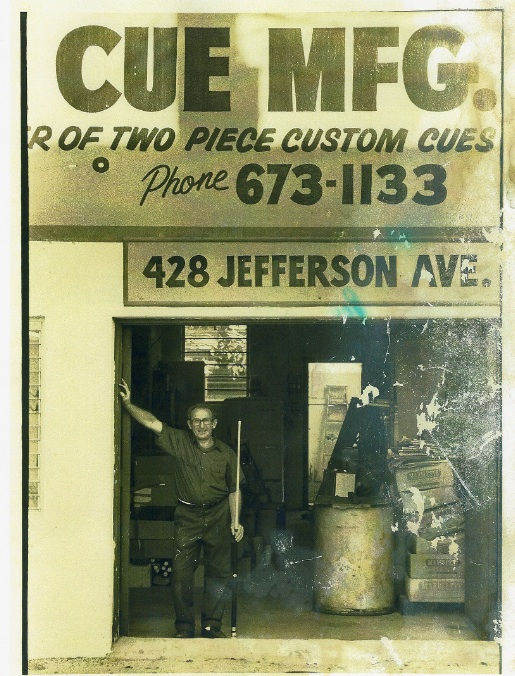 At the alley door.